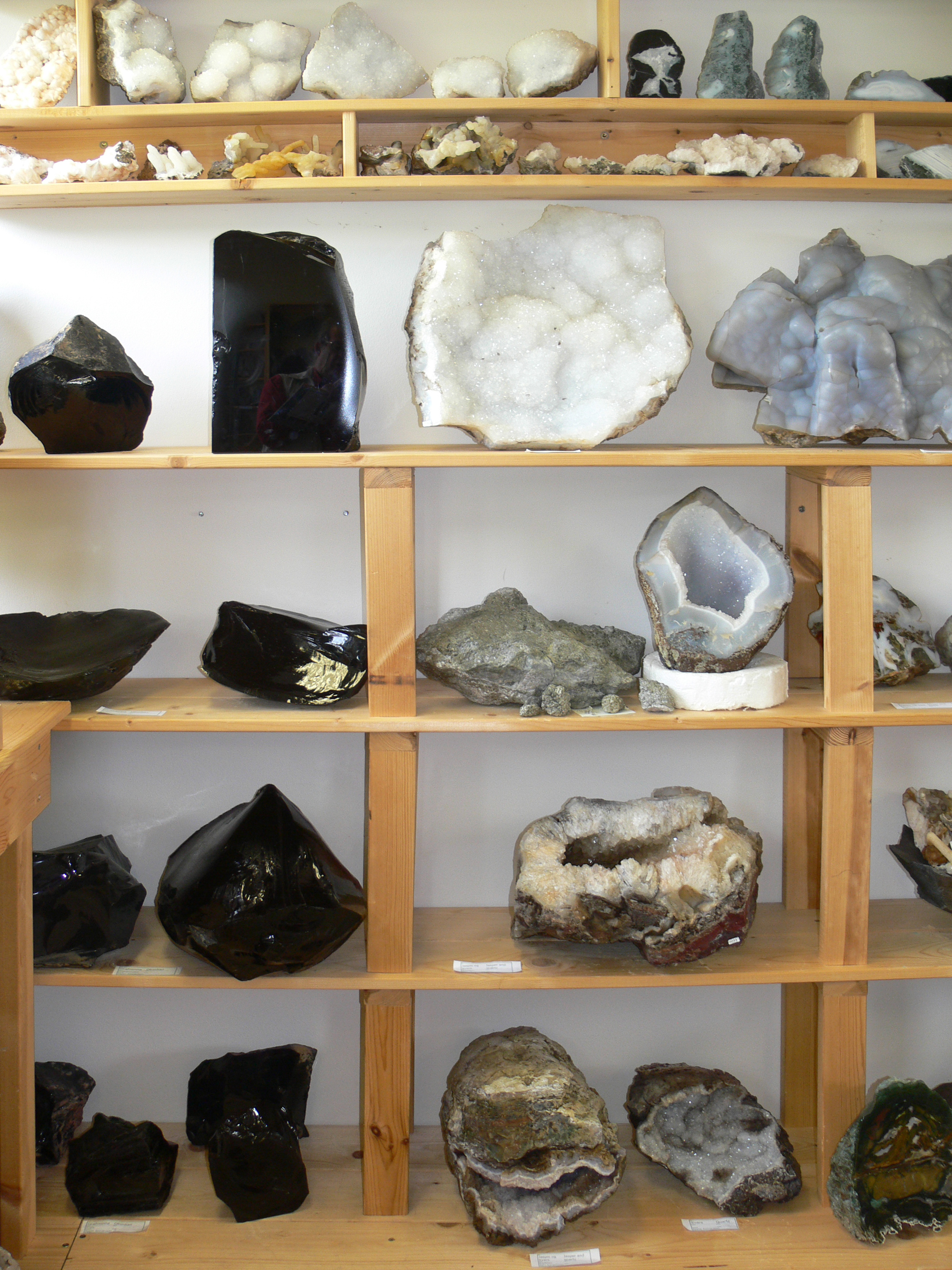 Breiðdalsvík. The museum exhibits a large collection of stones.